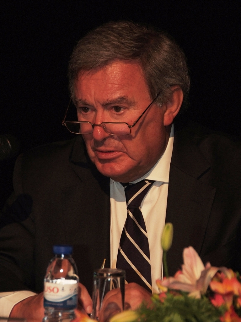 Basilio Horta, president of AICEP, at a congress held at Exponor, Portugal.